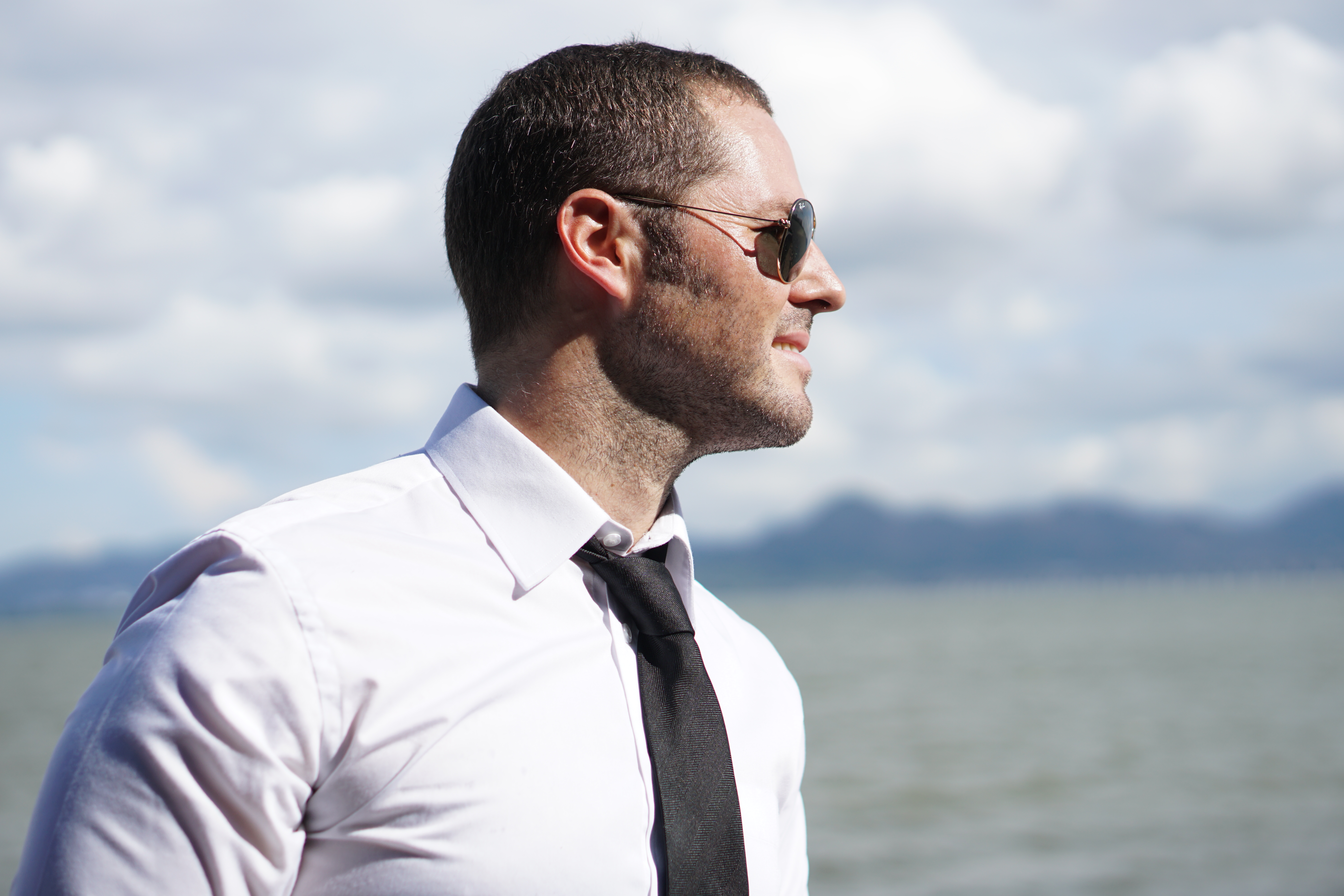 This is a photo taken by Winston Sterzel of himself at the 红树林 Mangrove bay of Shenzhen on Friday the 14th of July 2017.